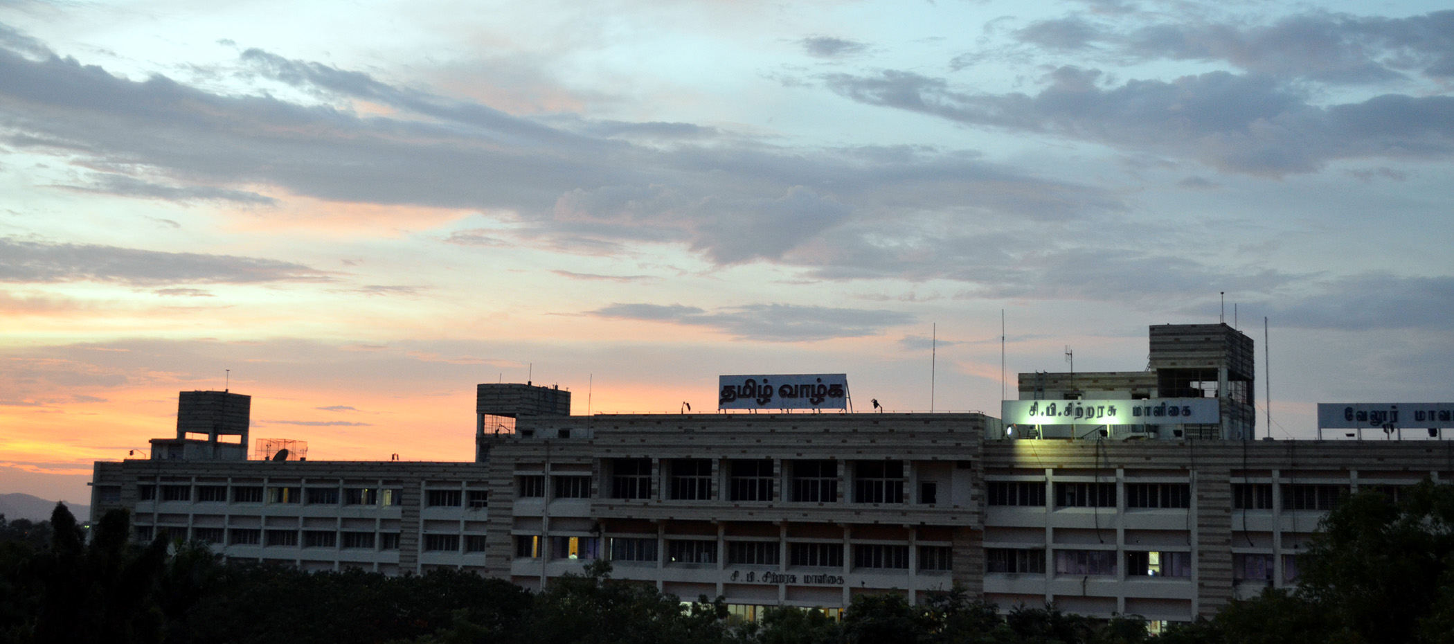 at Evening Time